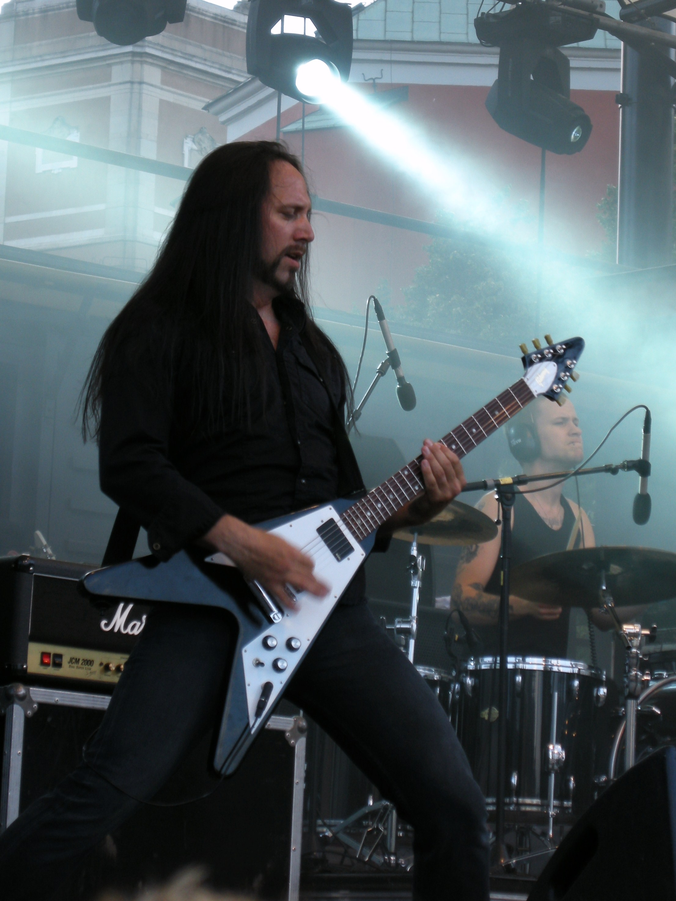 Niclas Engelin, guitar player of Swedish metal band Engel at Kungsträdgården, Stockholm, Sweden